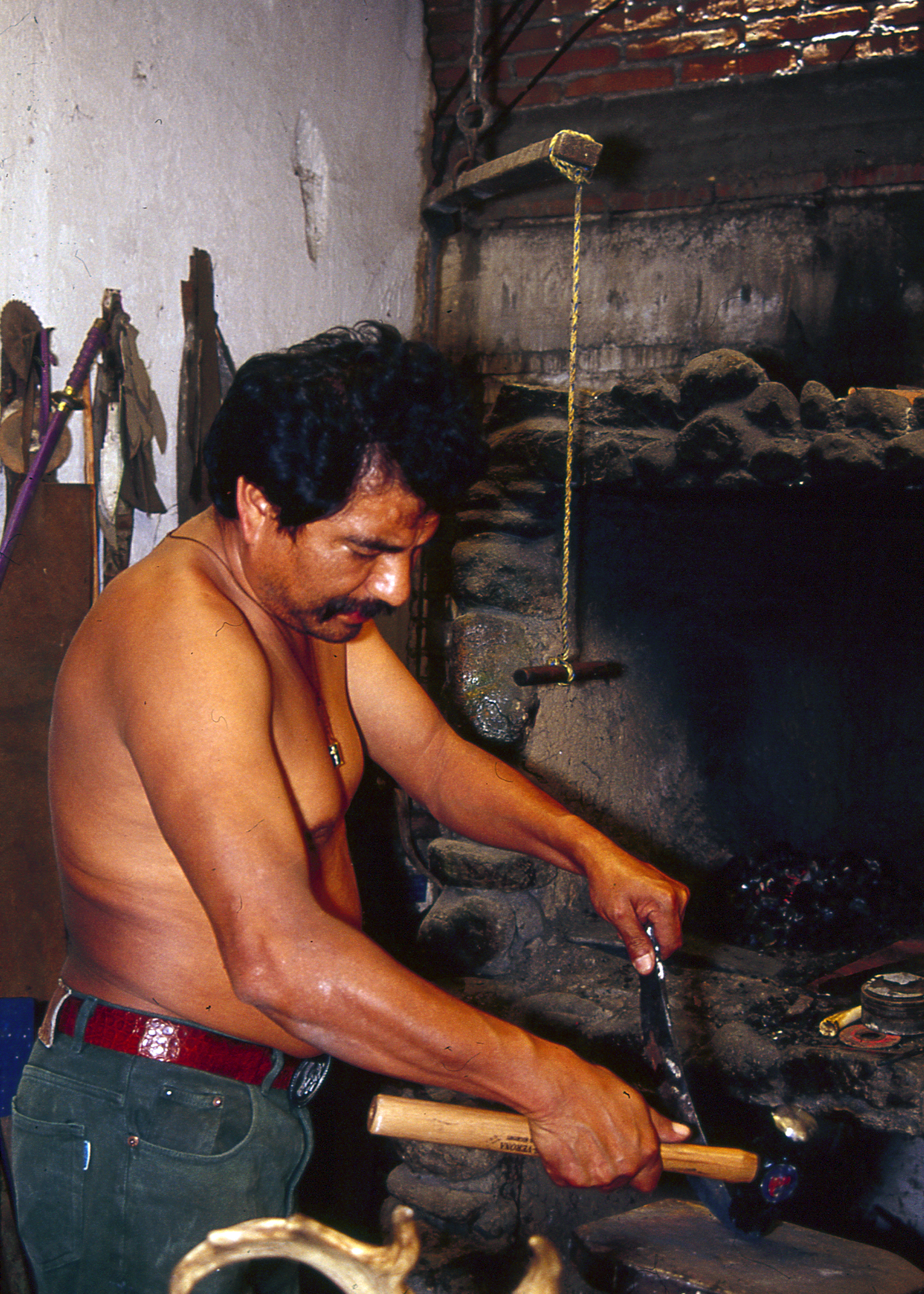 Blacksmith Apolinar Aguilar Velsaco at his workshop in Ocotlán de Morelos, Oaxaca, Mexico